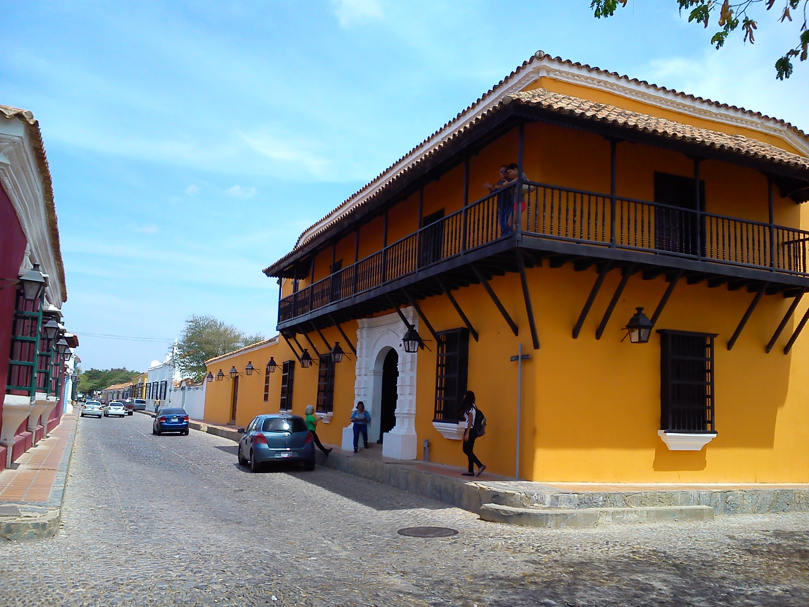 La belleza de Venezuela